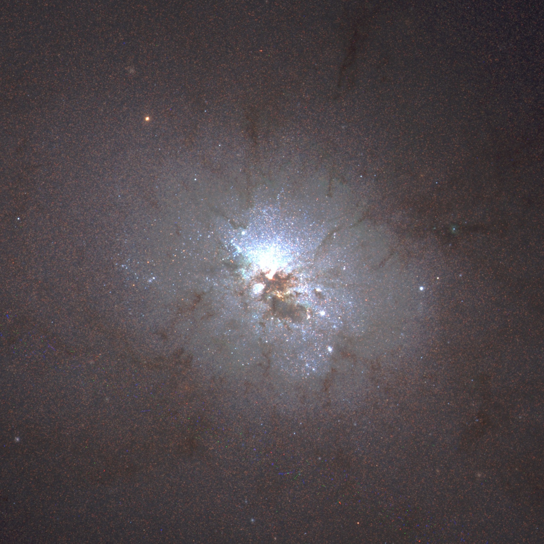 NGC 3077 core by Hubble Space Telescope, 1.5′ view